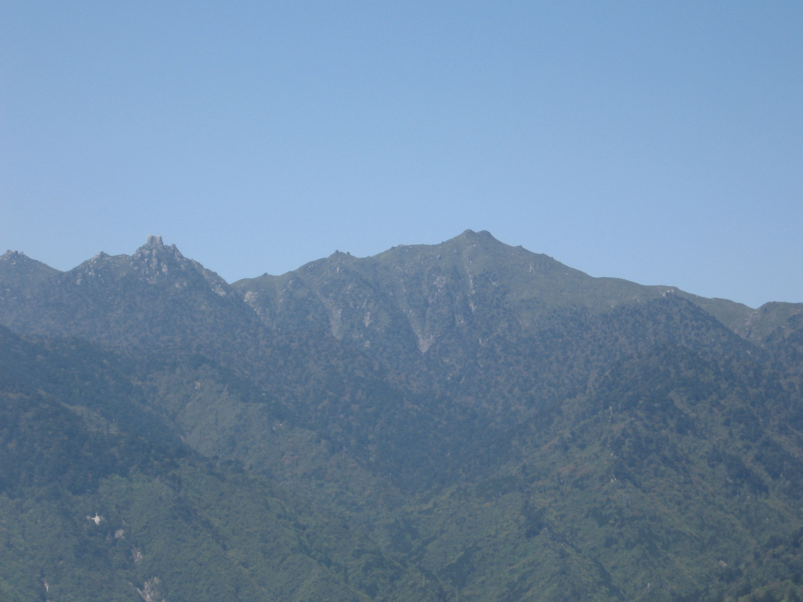 Mount Miyanoura seen from Taiko-iwa, Yakushima